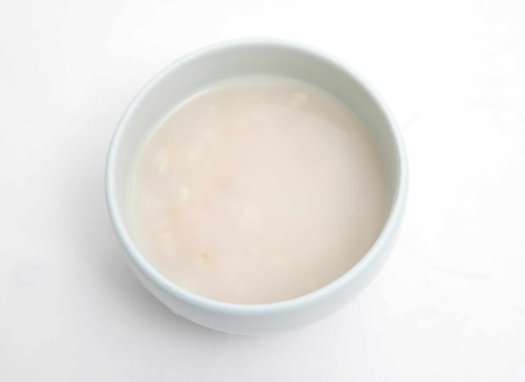 Dongdongju